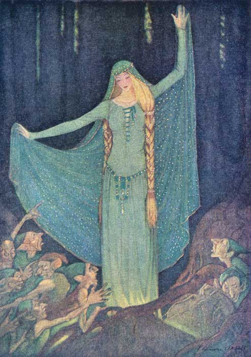 Illustration from "The Two Kings' Children" in Grimms' Fairy Tales (1920 Charles Scribner's Sons edition)